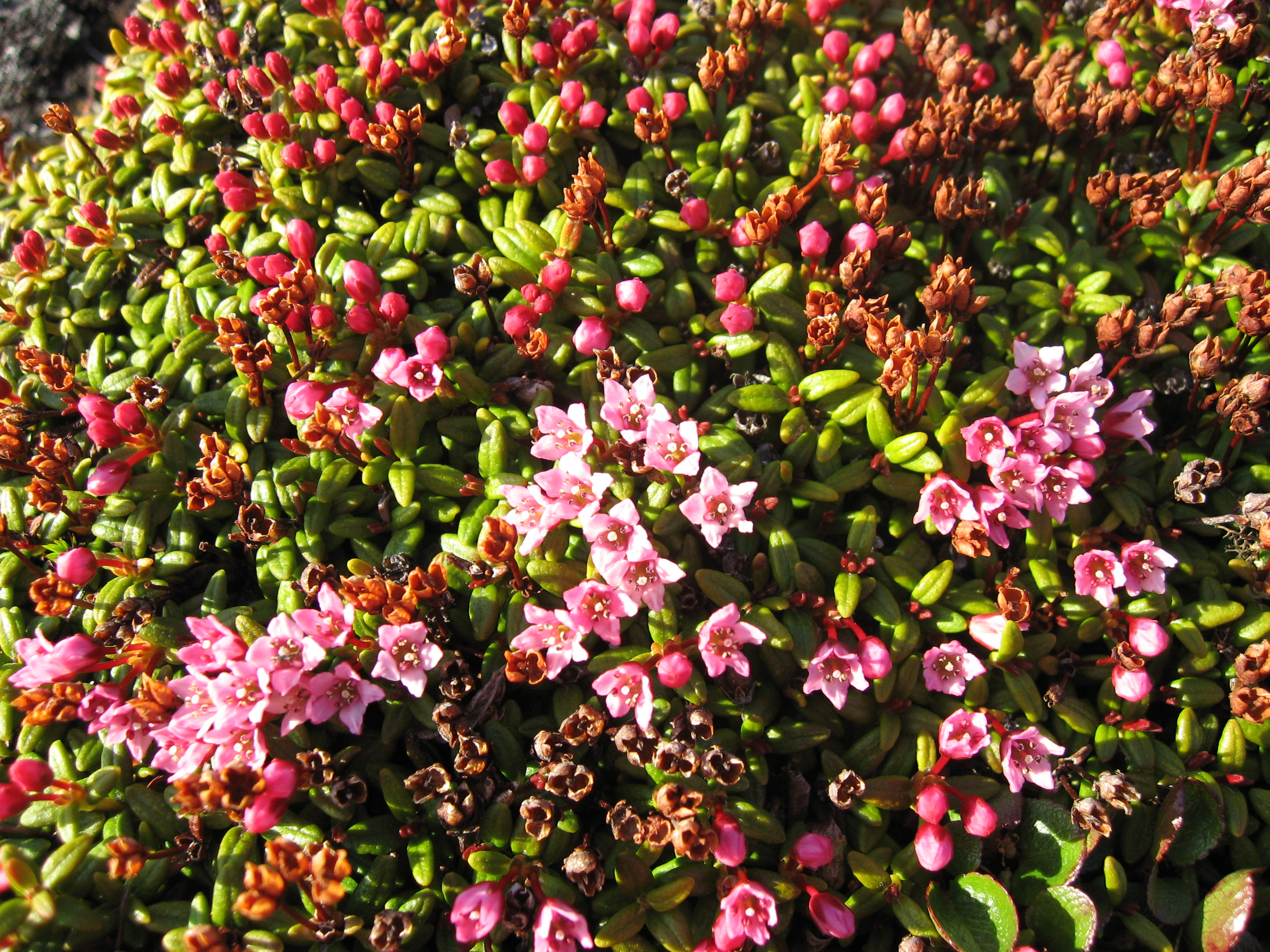 Loiseleuria procumbens photograped in Upernavik, Greenland.